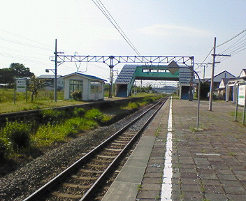 Mutsu-Ichikawa Station in Home